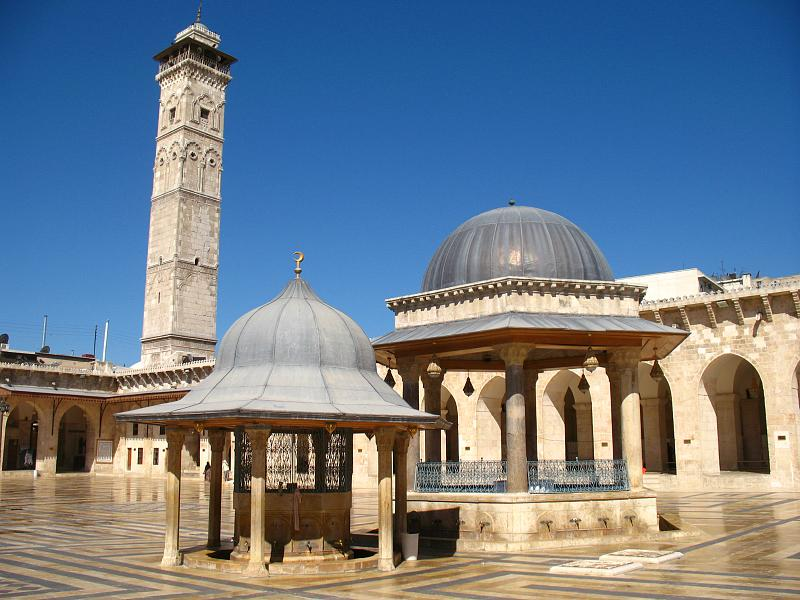 Great Mosque courtyard, with Şadirvan pavilions and minaret, Aleppo, Syria.